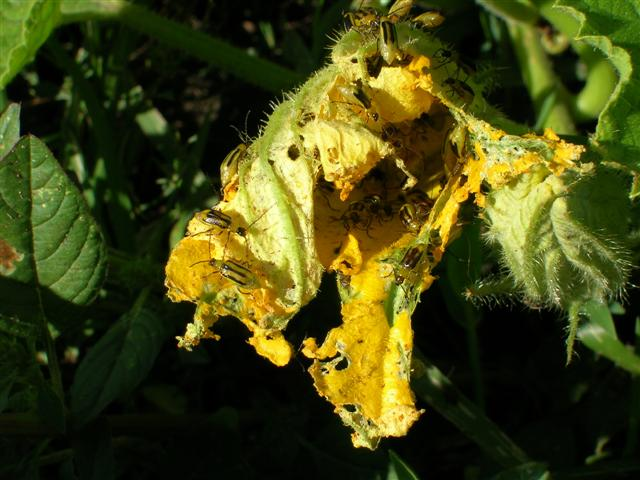 Cucumber beetle damage to winter squash blossoms.